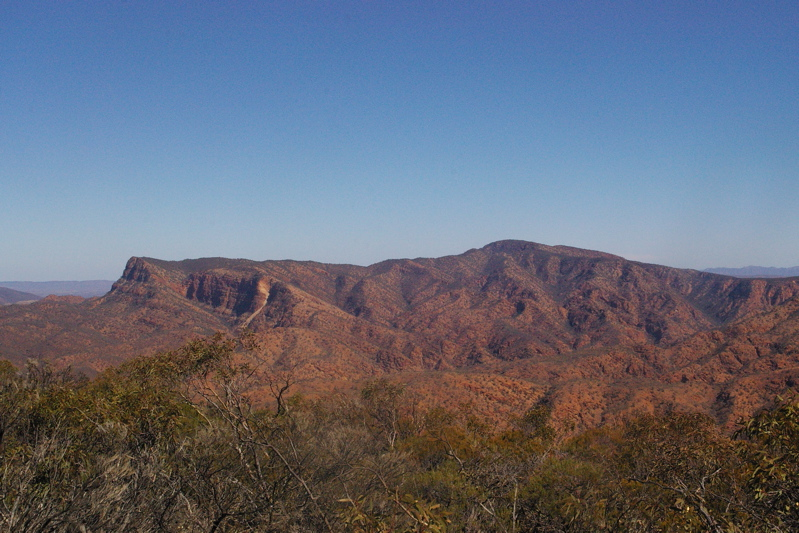 Mount McKinlay Bluff and summit, Gammon Ranges, South Australia.